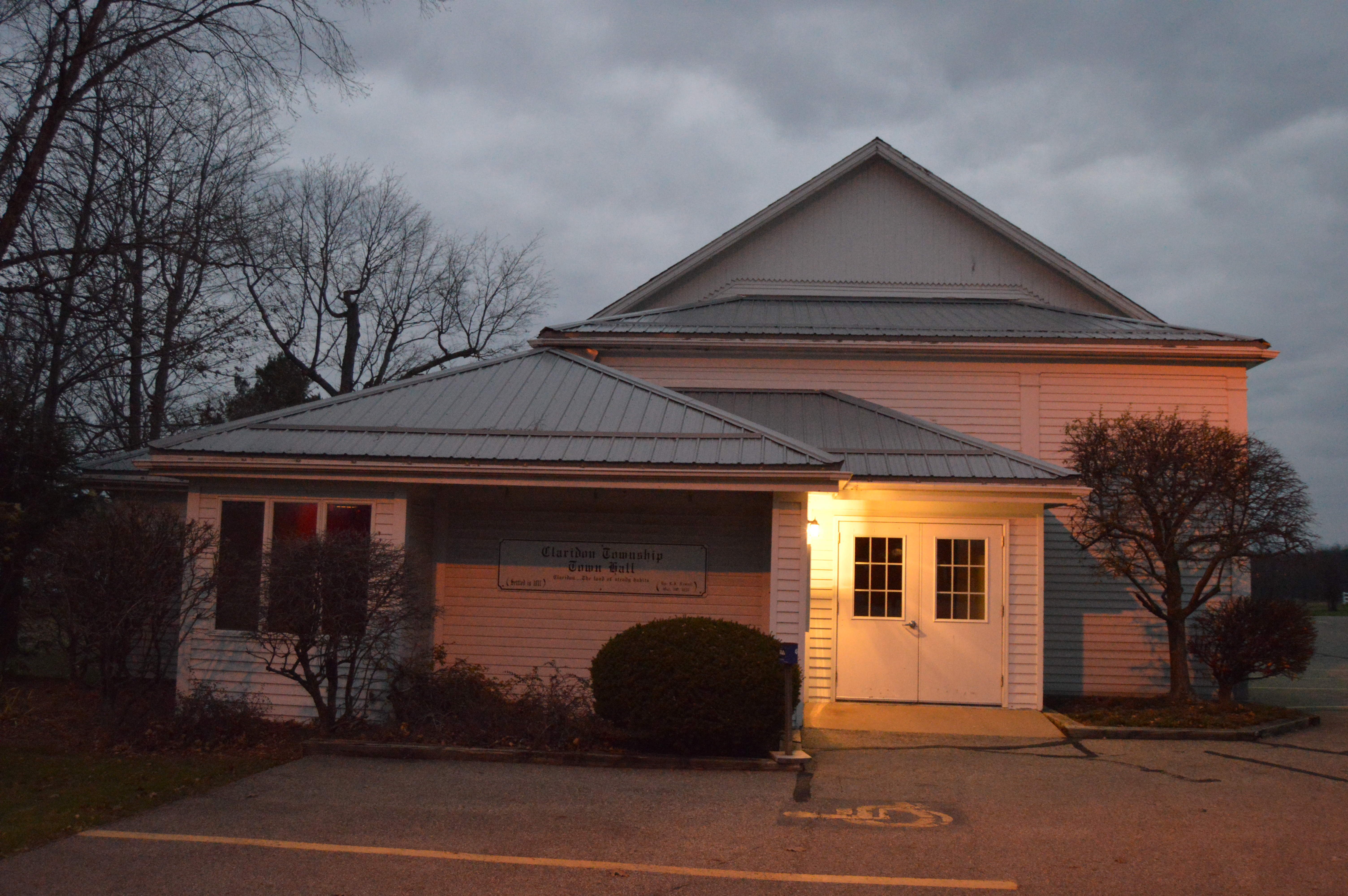 Front of the Claridon town hall, located on the public green (junction of U.S. Route 322 and Claridon-Troy Road) in Claridon Township, Geauga County, Ohio, United States.